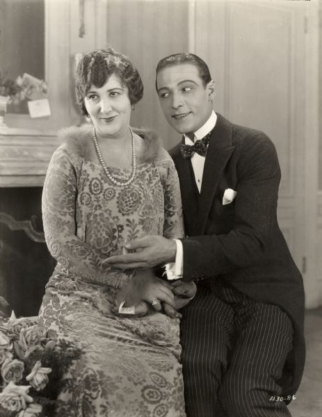 Mabel Van Buren (as Mrs. McBride) and Rudolph Valentino (Lord Hector Bracondale) sit side by side in a scene still for the 1922 silent drama Beyond the Rocks.